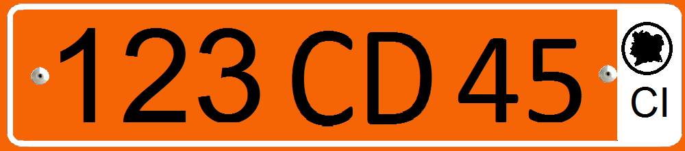 License Plates of Vehicles with private registration in Ivory Coast